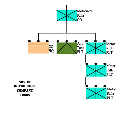 Order of battle graphic for 1980s Soviet Motor Rifle Company